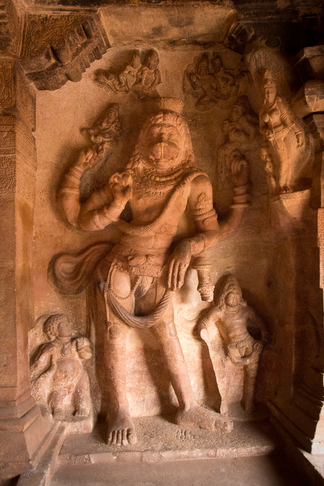 Group of Monuments at Badami. Vishnu as the joyful Vijaya Narasimha after slaying Hiranyakashipu.